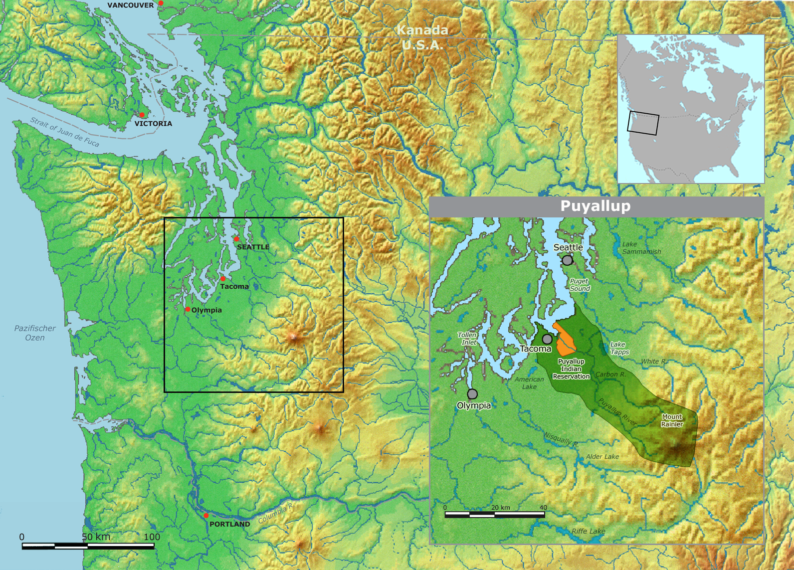 Map of traditional Puyallup tribal territory.